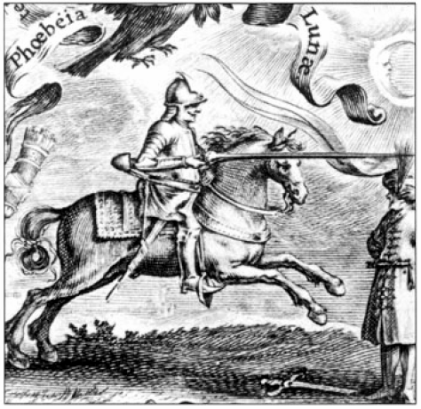 Joachim Pastorius, frontispiece of book "Florus Polonicus", 1641, Leiden.